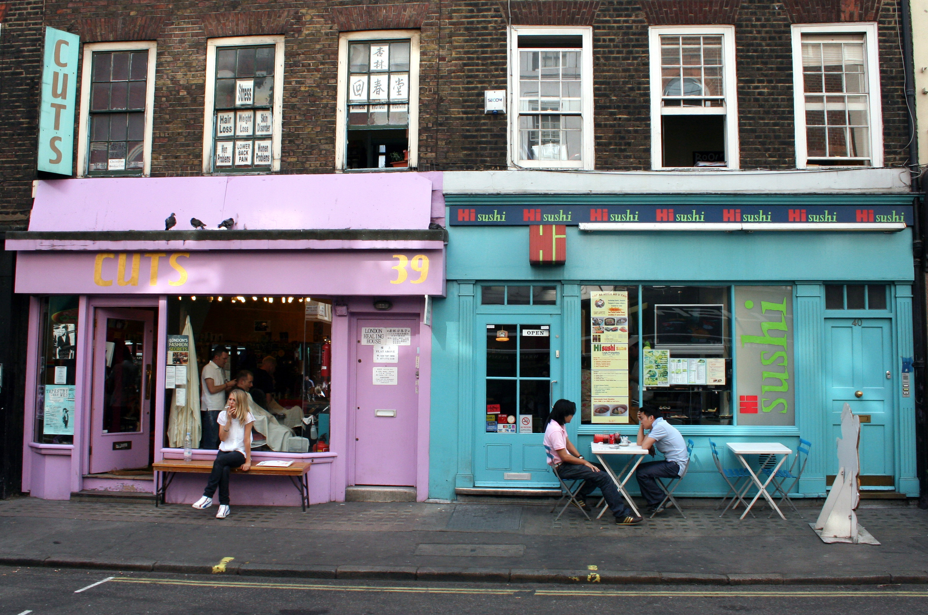 Colorfully painted shop windows in a typical Soho backstreet in London. 39-40 Frith Street, Soho, London W1.